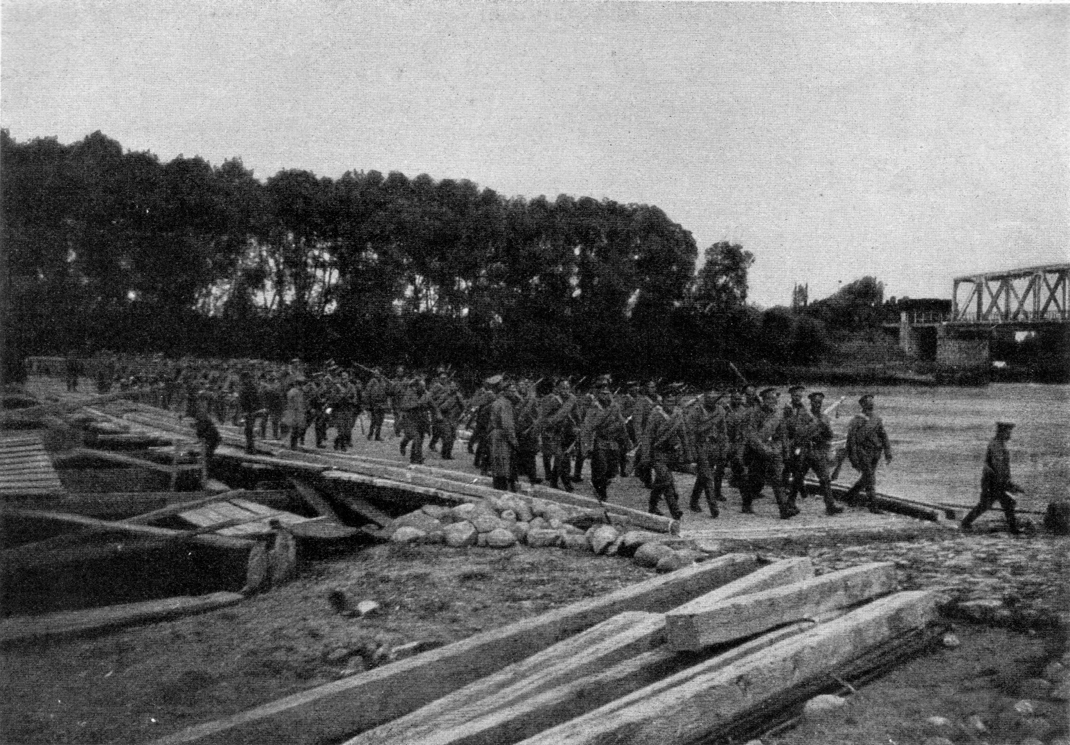 Russian soldiers crossing river near Ivangorod fortress.